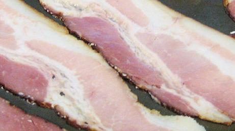 Danish bacon being cooked.